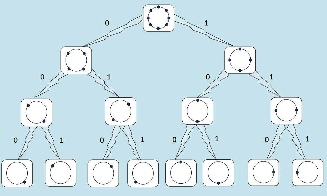 Trellis Coded Modulation (TCM)